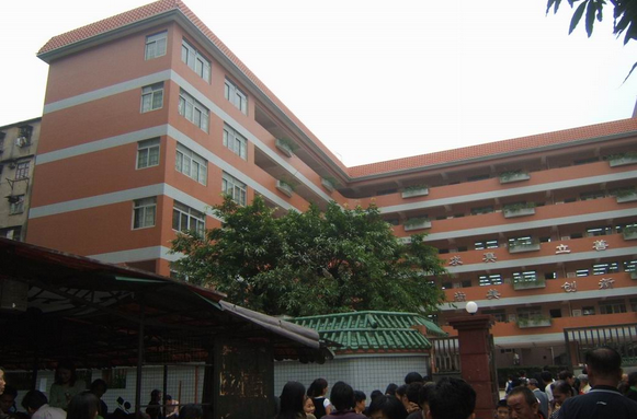 Block One of Yong Yao Bei Primary School (Wing Yiu Pak Primary School) in Canton, China 粵語: 廣州市永曜北小學1號樓